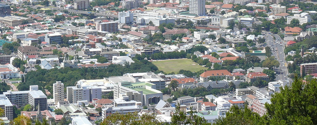 Photo by Hilton Teper